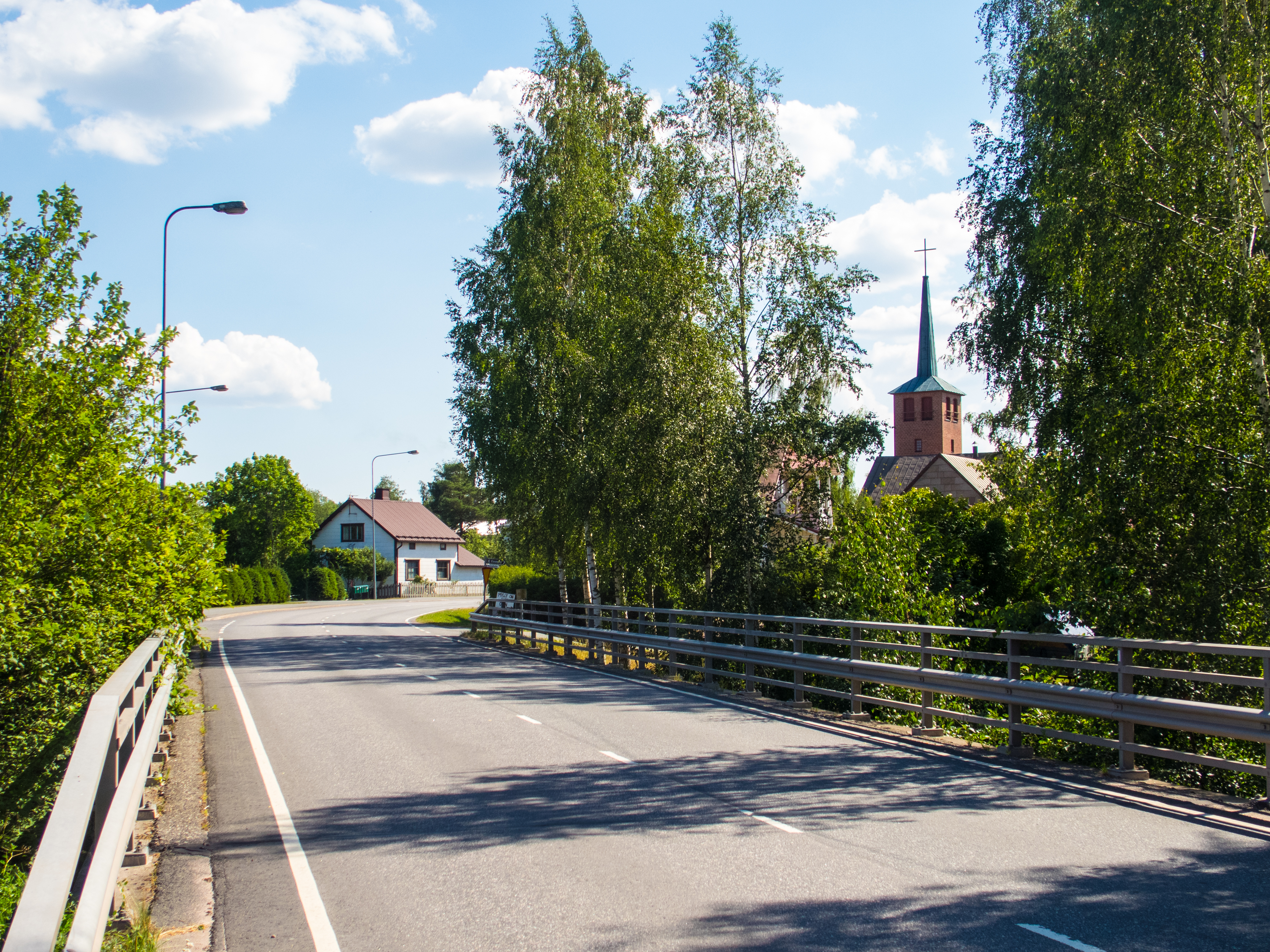 Connecting road 2172 through Panelia village in Eura, Finland.